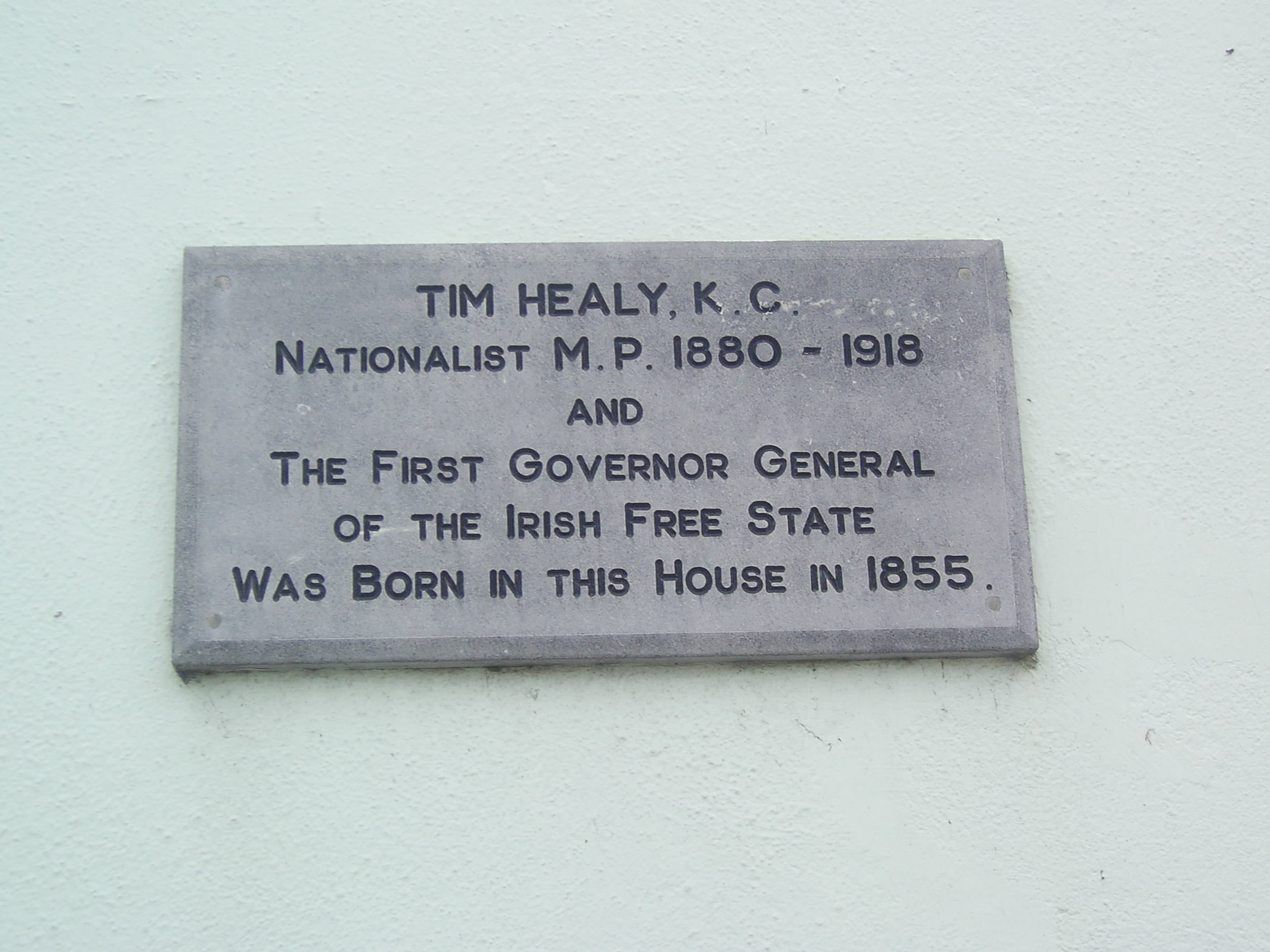 Plaque commemorating birthplace of T M Healy on Wolfe Tone Square, Bantry, County Cork. Text reads "Tim Healy, K.C. Nationalist M.P. 1880 - 1918 and The First Governor General of the Irish Free State Was born in this House in 1855".